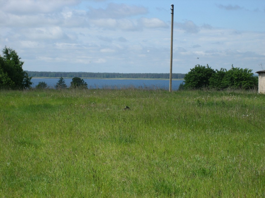 Lake Metelys in Lithuania